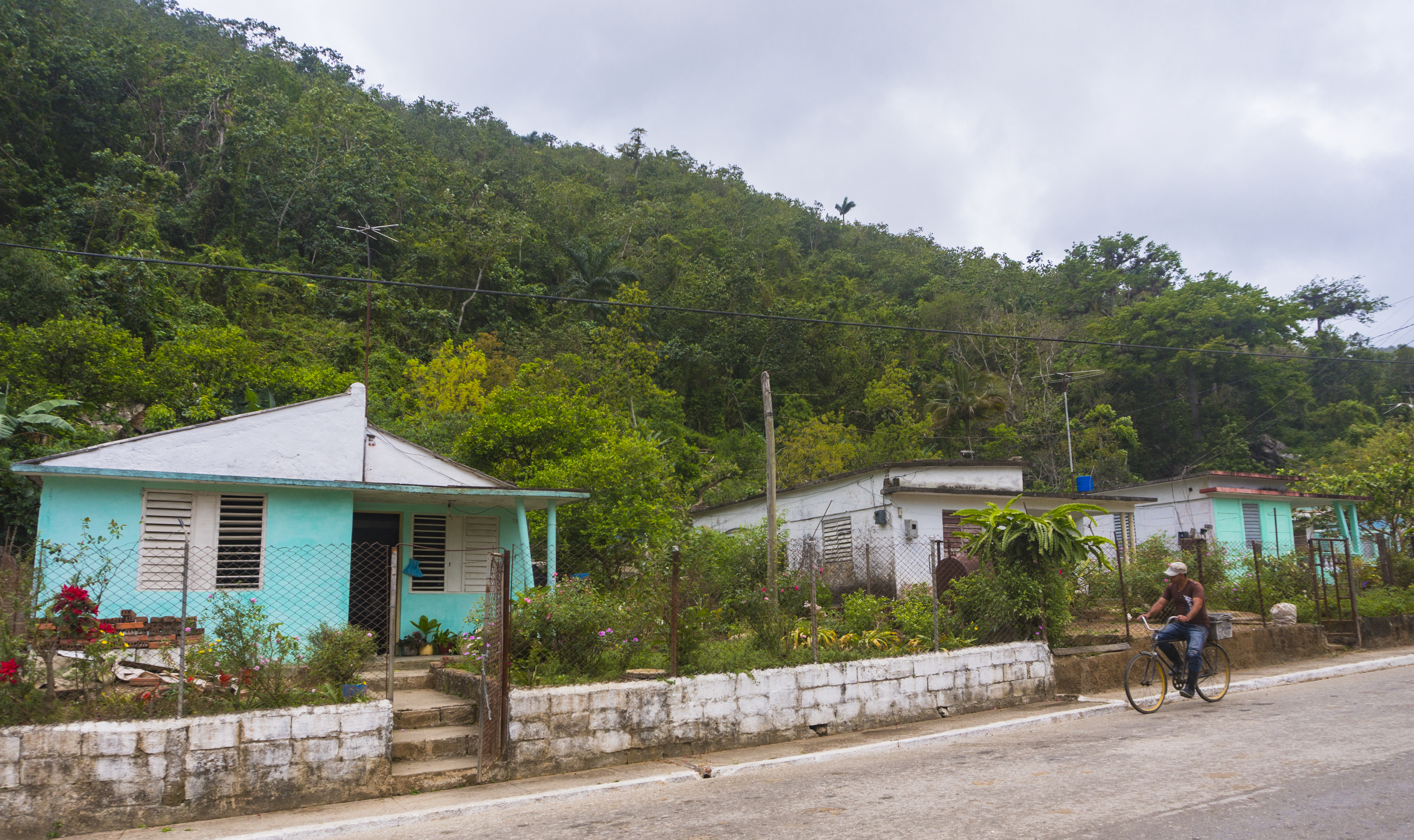 Houses in "Mountain Architecture" style (60s onward) in Jibacoa's main road, Escambray Mountains, Villa Clara province, Cuba.